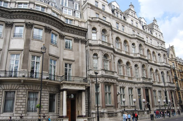 101 - 104, Piccadilly Wikidata has entry Q5369754 with data related to this item.